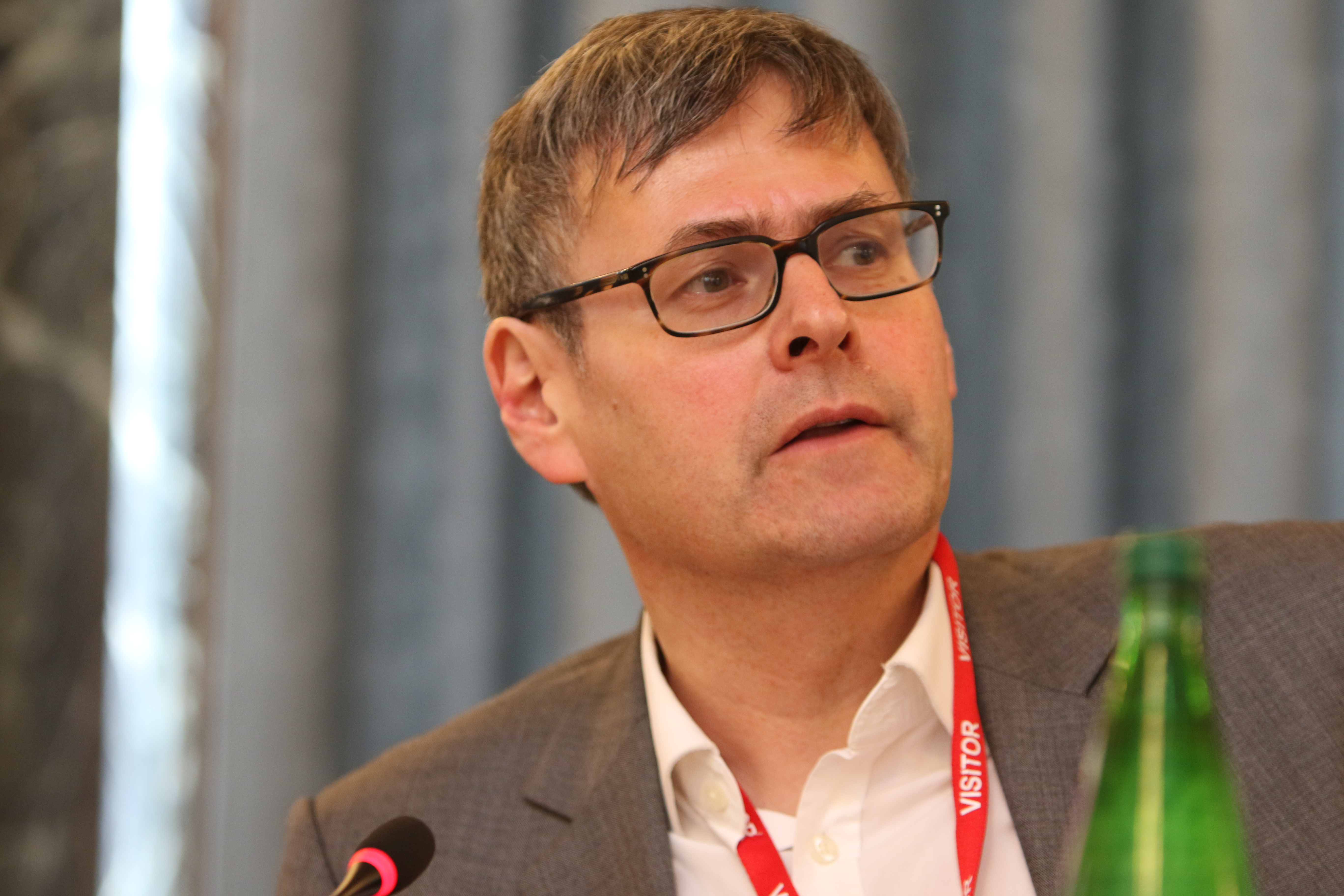 Dr Ed Kessler, Woolf Institute at the two day summit to bring together experts to explore how freedom of religion or belief can help prevent violent extremism held at the Foreign & Commonwealth Office in London, 20 October 2016. Read more